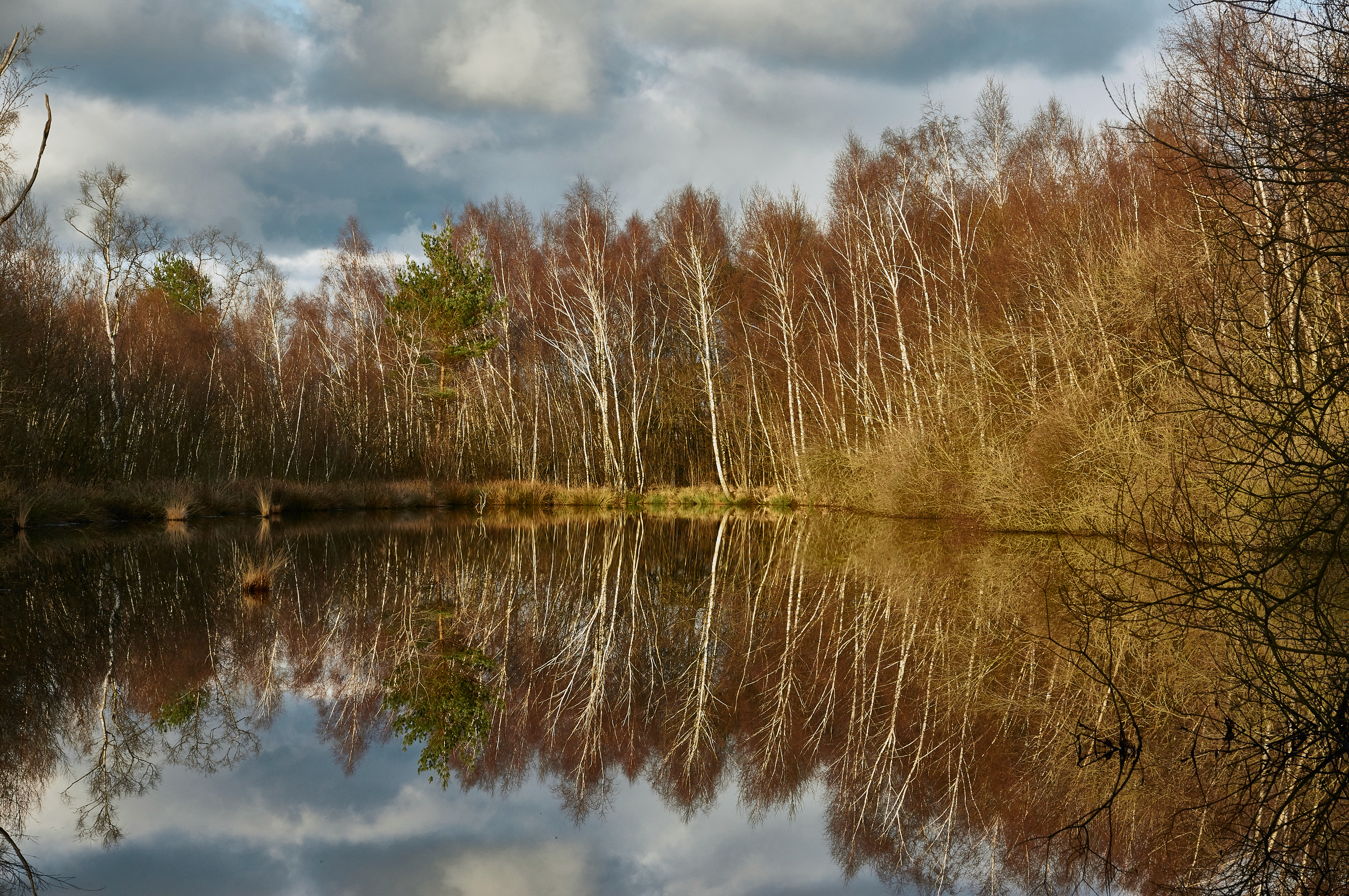 Nature reserve Burlo-Vardingholter Venn und Entenschlatt, Borken, Germany.